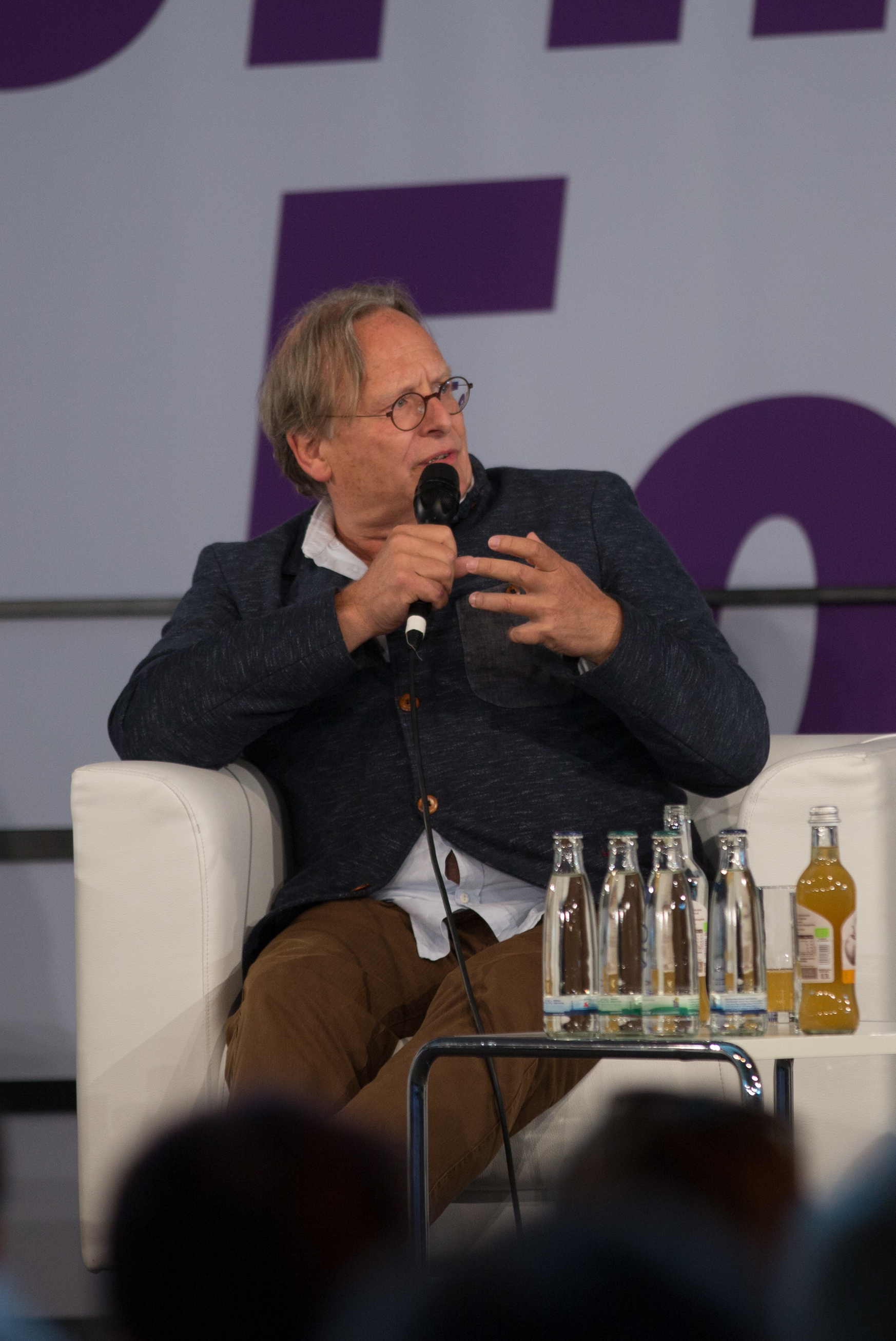 Dietrich Grönemeyer at the Internationales Deutsches Turnfest 2017 in Berlin on June 08.